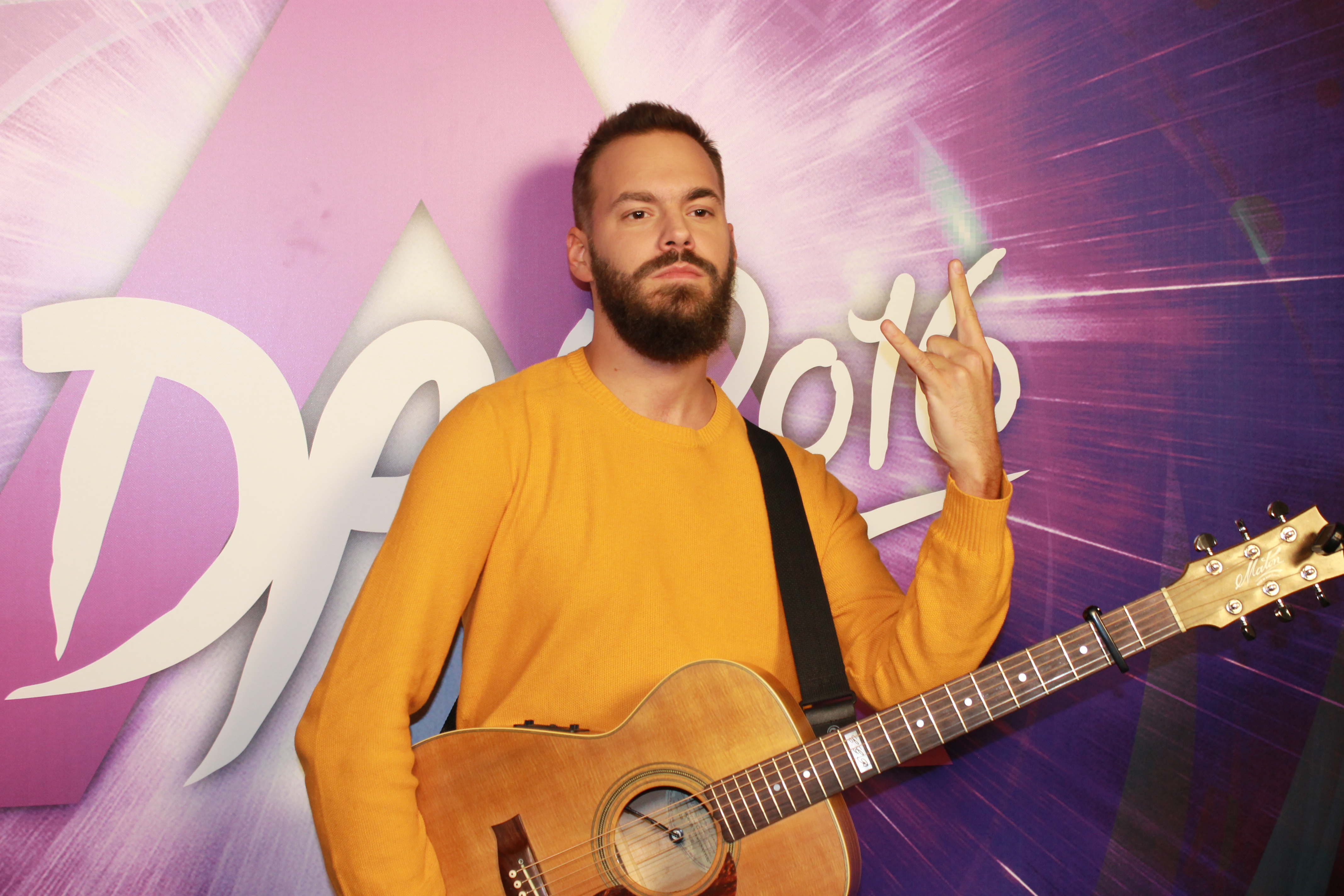 A Dal 2016 finalist: Petruska